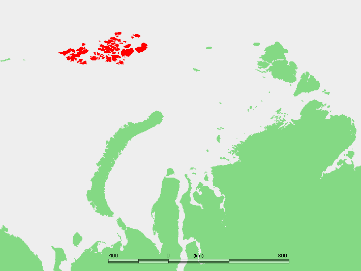 Nordensjelda Islands